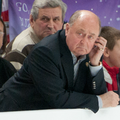 2011 Cup of Russia, short program.